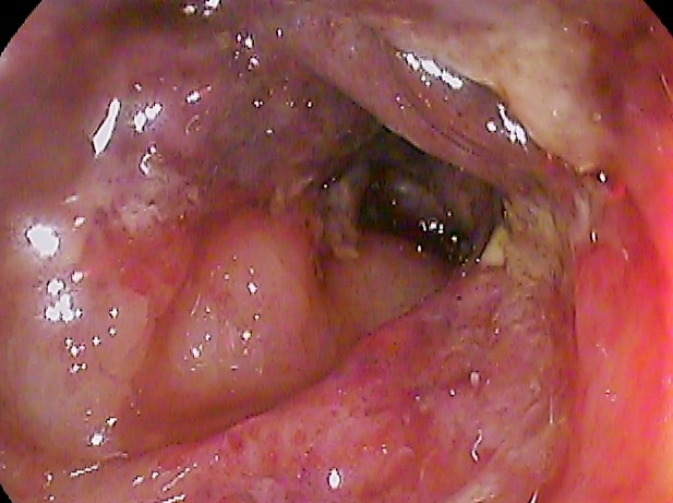 ischemic colitis, Transvers colon, 82 y. o, female